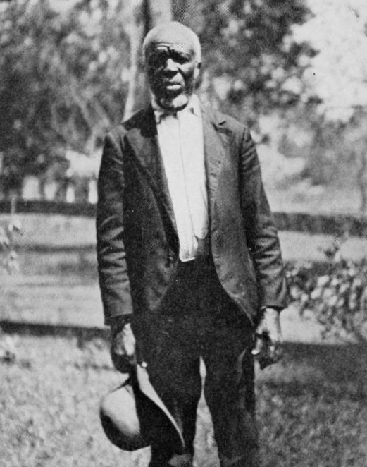 Photo of Cudjo Lewis (c.1841 - 1935), the third to last known survivor of the Atlantic slave trade between Africa and the United States.